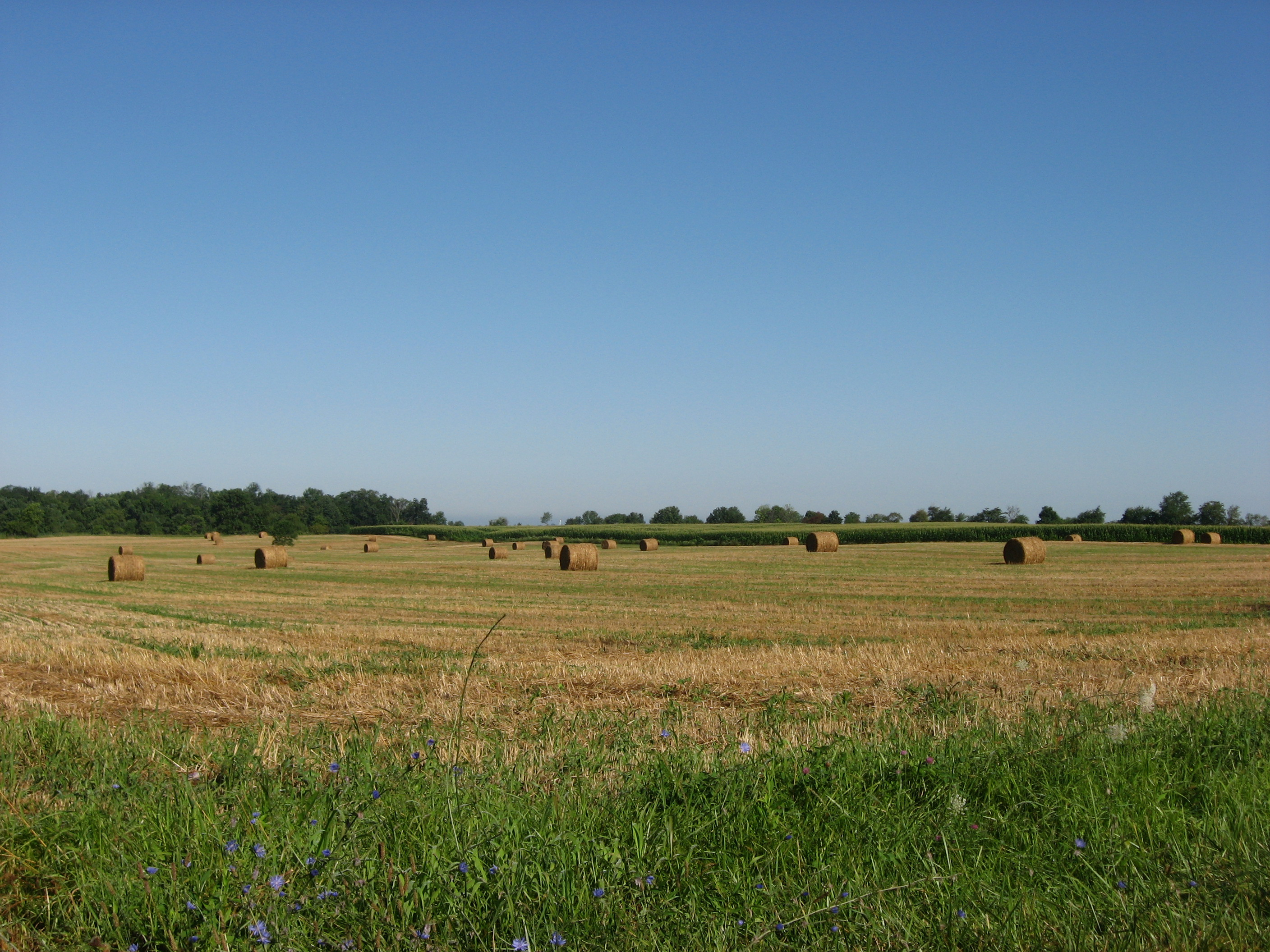 Round straw bales in a cut wheat field in northwestern Saltcreek Township, Pickaway County, Ohio, United States, looking northwest from the intersection of Jackson and Spangler Roads.